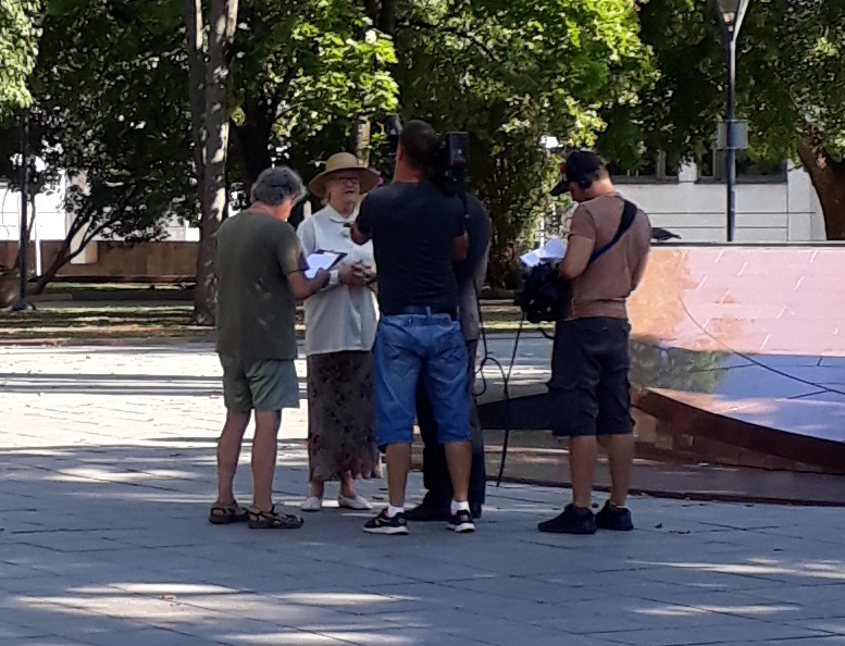 Vincas Kudirka Square, 2018